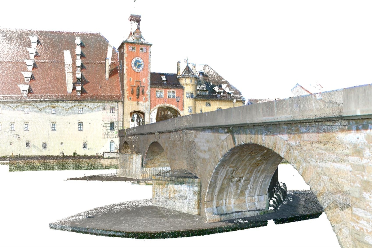 The Stone Bridge's first arch and the first pillar on the southern side were completely covered with more recent construction when the municipal salt storehouse (Salzstadl) was built between 1616 and 1620, but they are still preserved in-state under the access-road to the bridge. Additionally, there was a small harbour at the base of Am Wiedfang street in the bridge's early centuries that is covered by later construction.